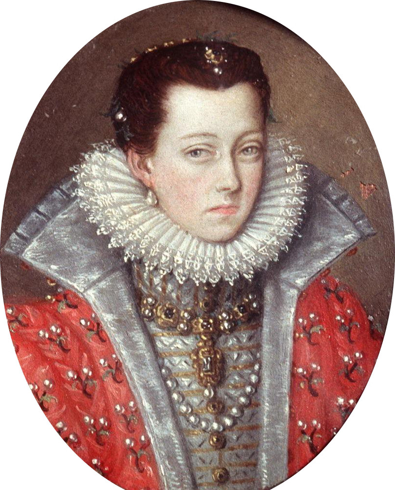 Portrait of Eleanor de' Medici (1567-1611), Duchess of Mantua